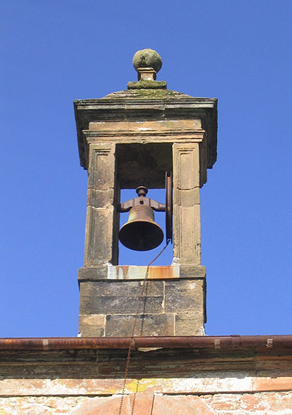 Bellcote of Johnstonebridge Church, Dumfries and Galloway, Scotland